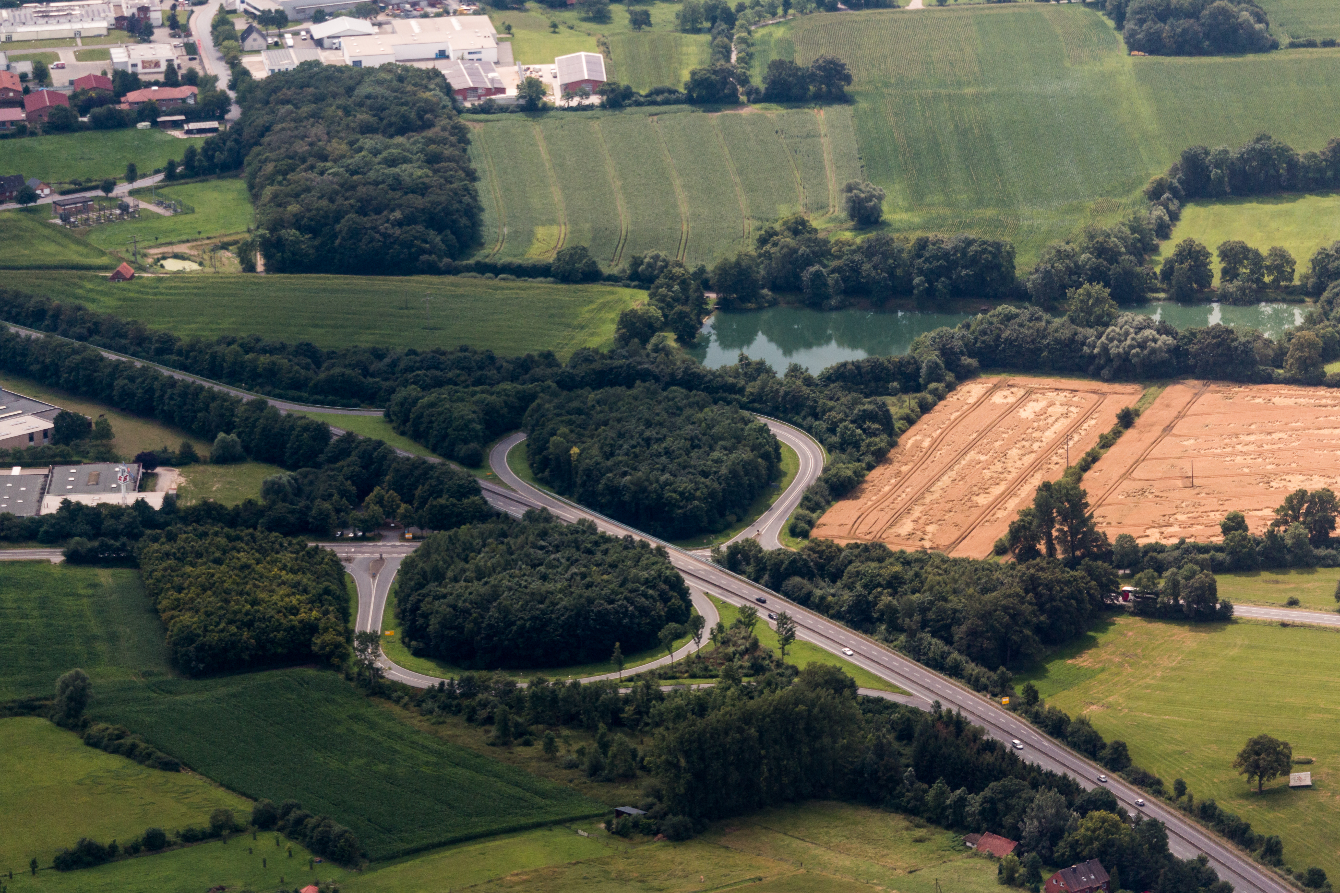 Bundesstraße 54, Altenberge, North Rhine-Westphalia, Germany